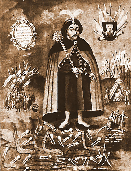 Bohdan Khmelnytsky on the map of Ukraine with polks (administrative and military regions depicted as maces). Original is lost.